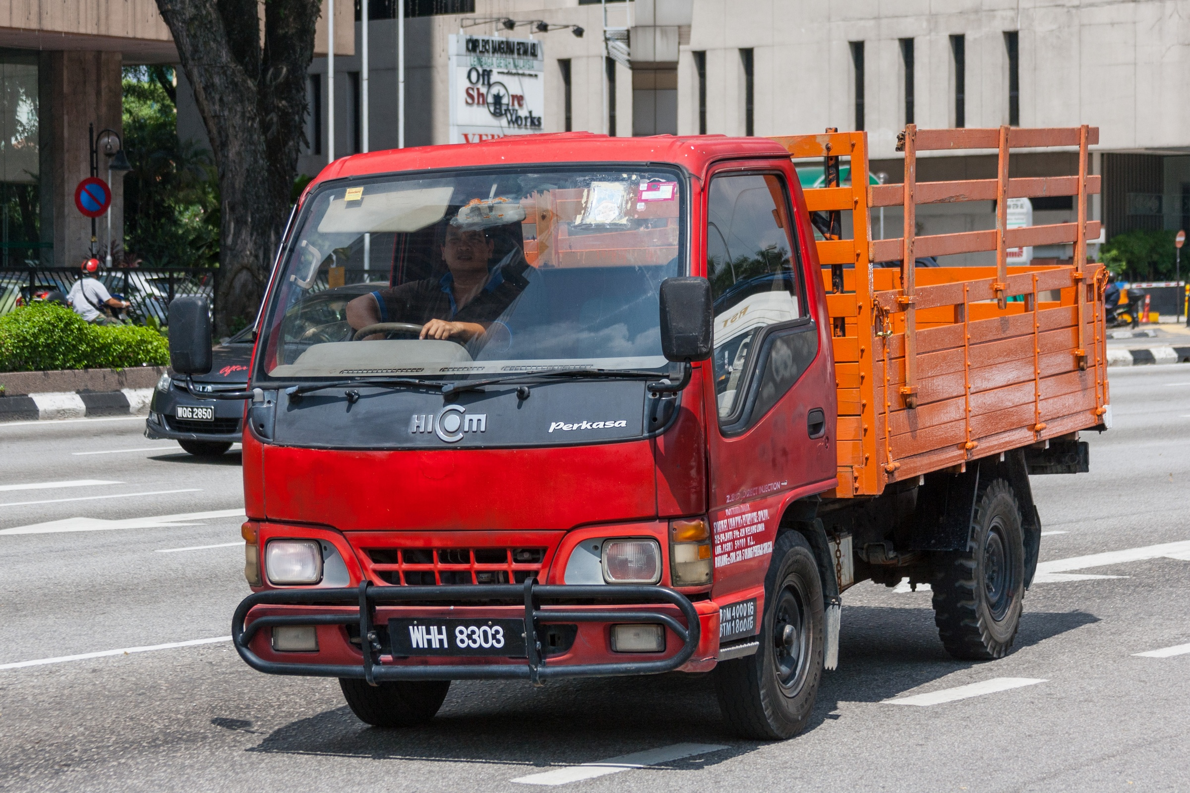 HICOM Perkasa truck in Kuala Lumpur, Malaysia